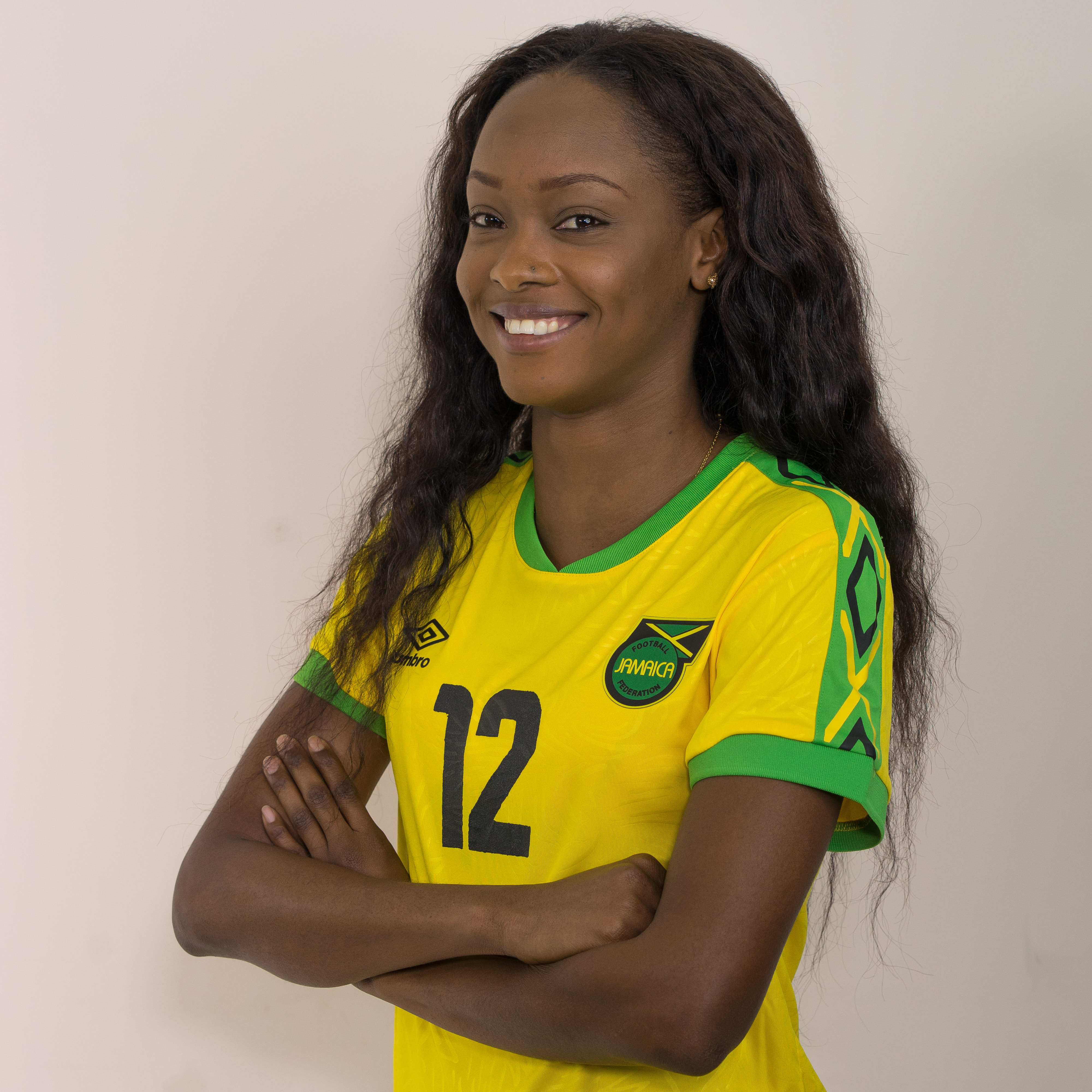 Reggae Girlz professional shot for World Cup